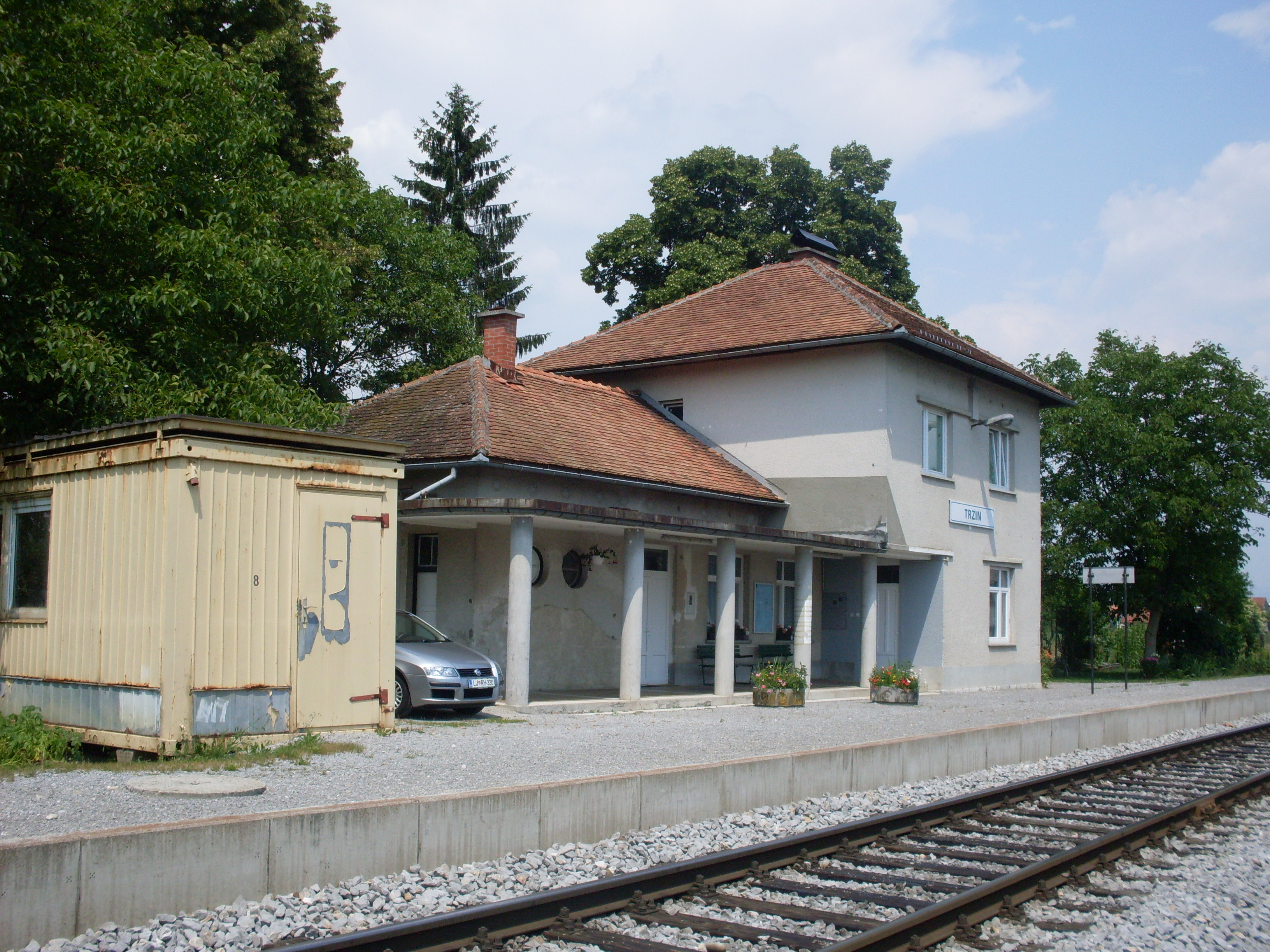 Rail halt (former train station) Trzin